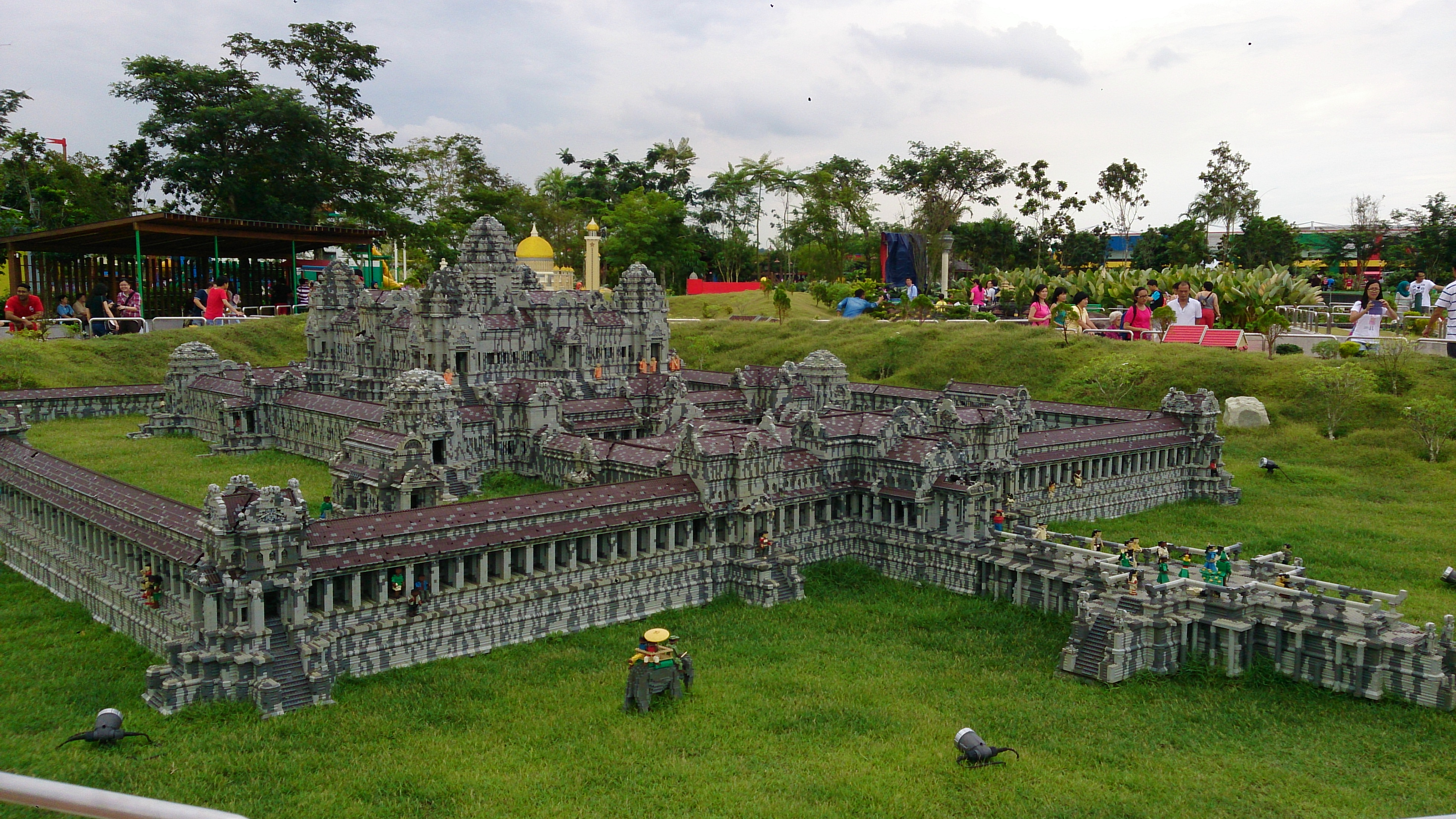 Miniature model of Angkor Wat (Cambodia, Siem Reap) at Miniland, Legoland Malaysia